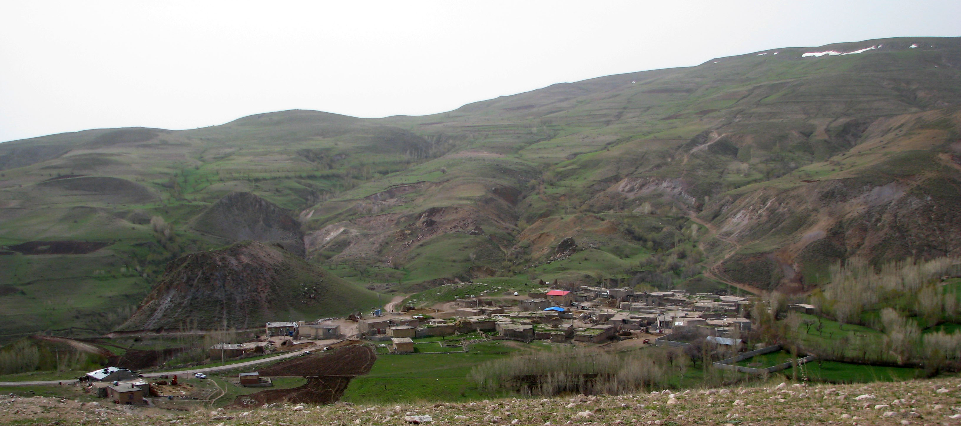 Pirbidaq is a village in Kowsar County, Ardabil province, Iran.